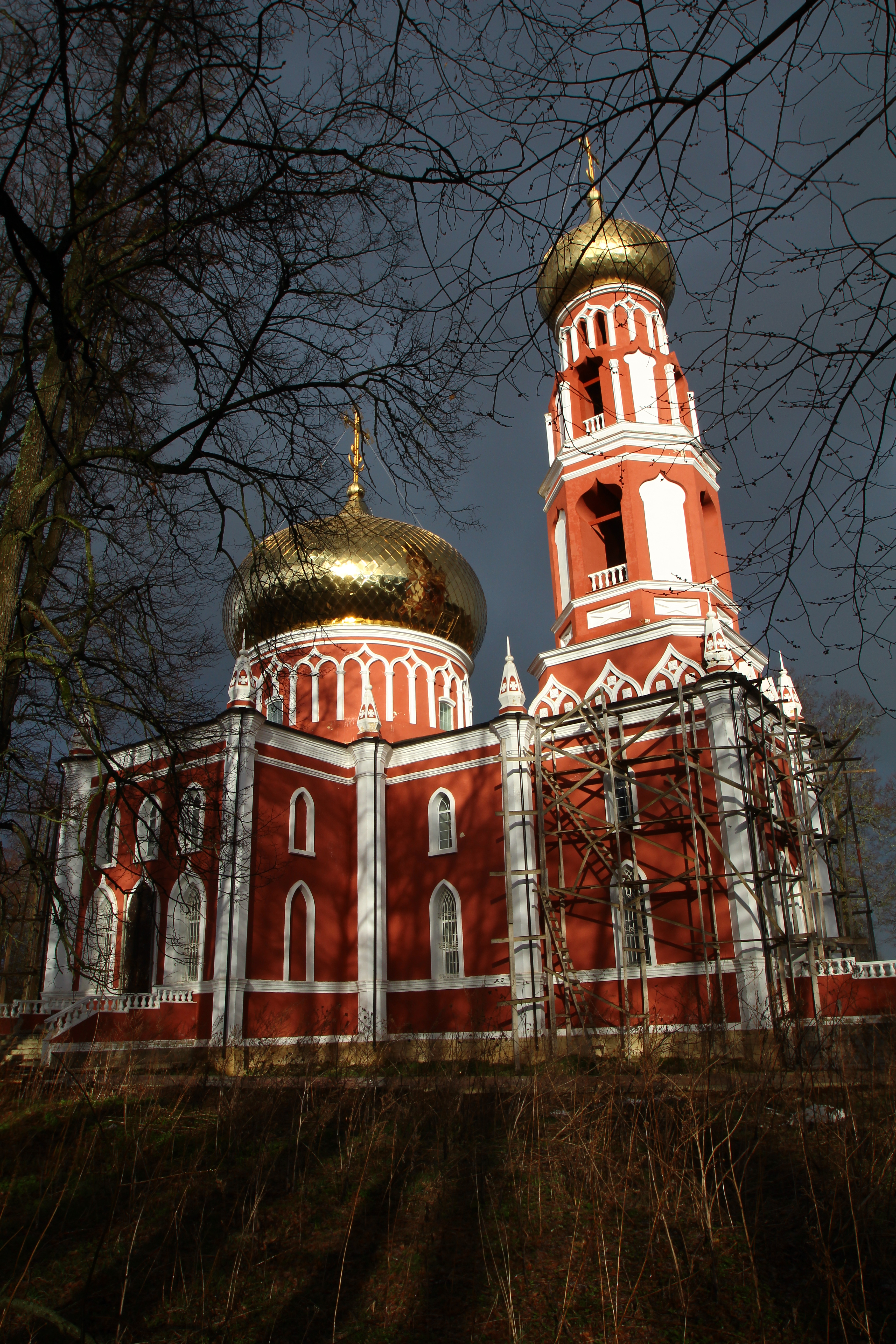 Church of the Assumption in Baryatino (Tarusa district) in 2017